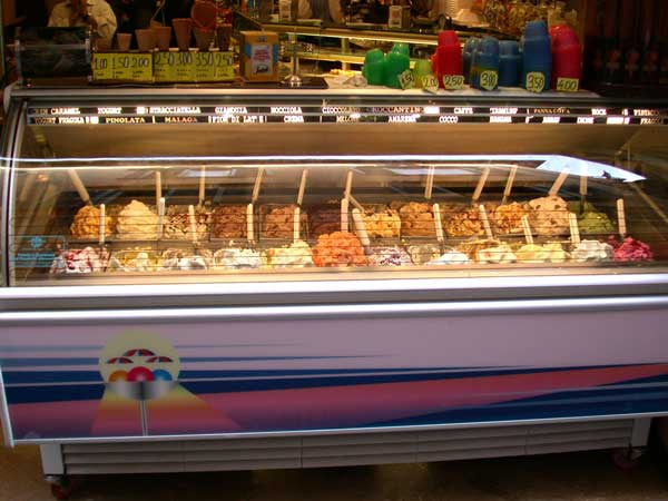 Ice cream parlour - Italian version